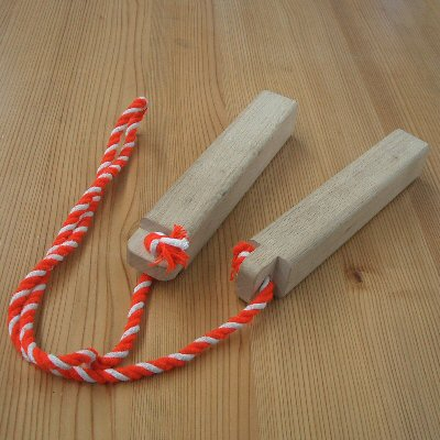 a Hyoshigi, a basic japannesse musical instrument